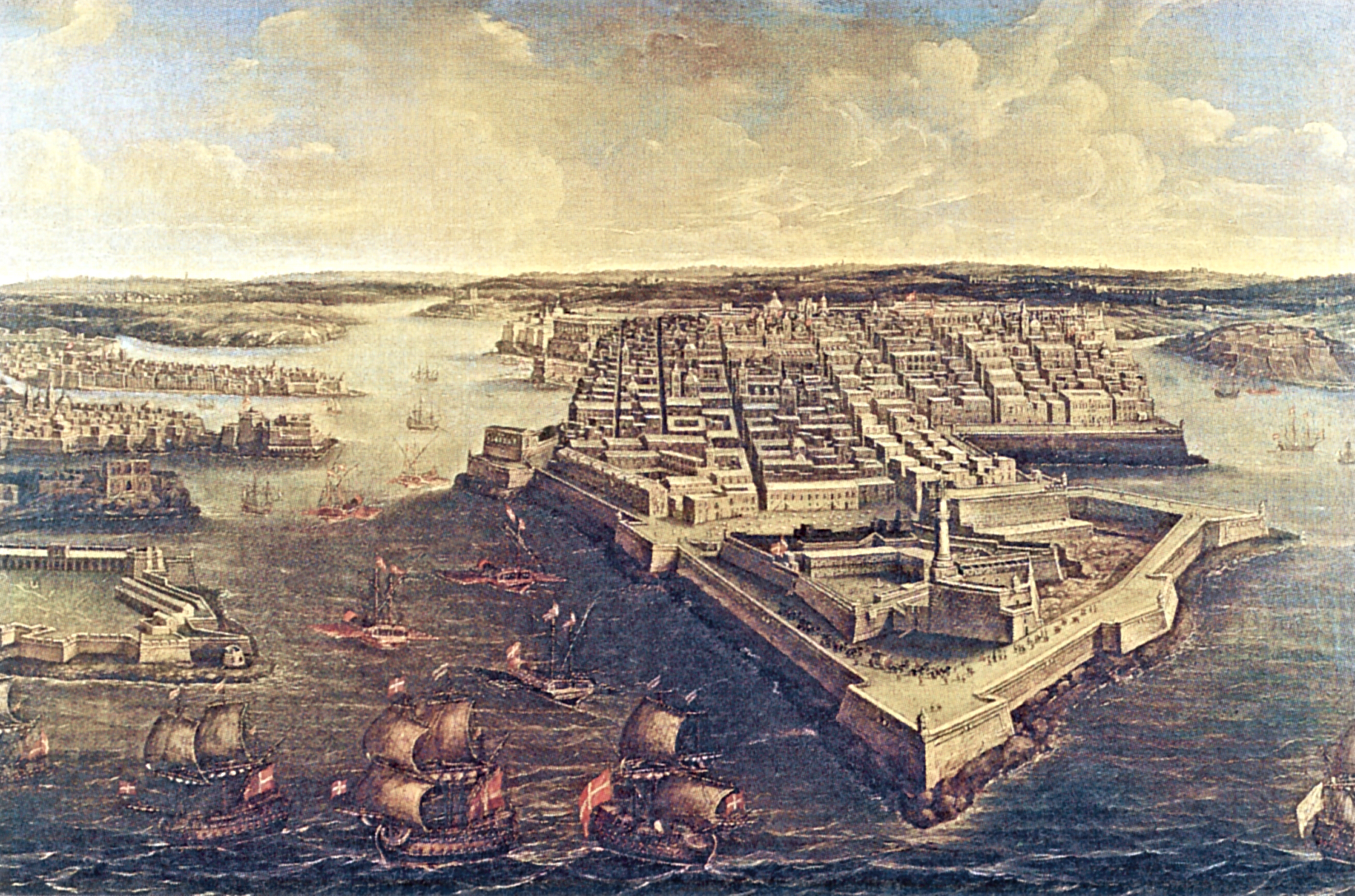 équilibrage des couleurs